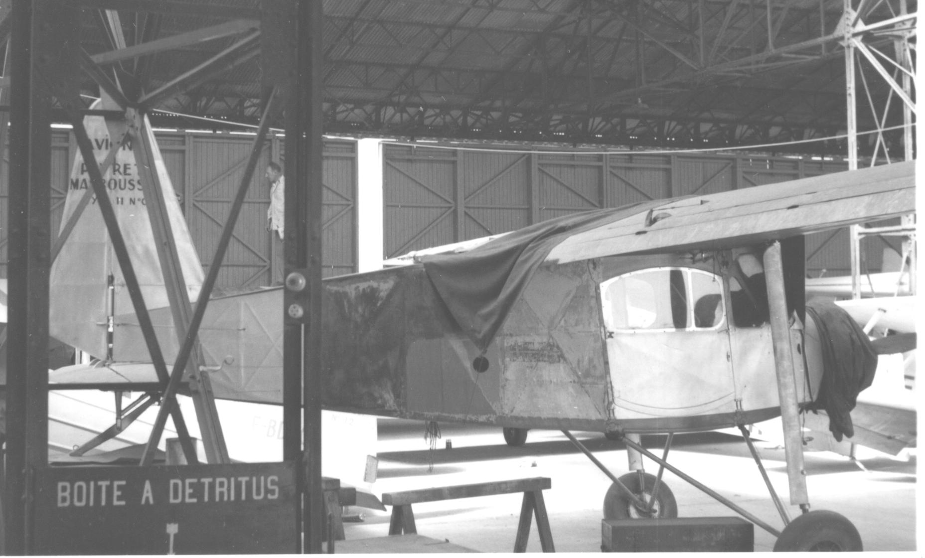 Peyret-Mauboussin PM XI No.02 F-AJUL at Mitry-Mory airfield near Paris